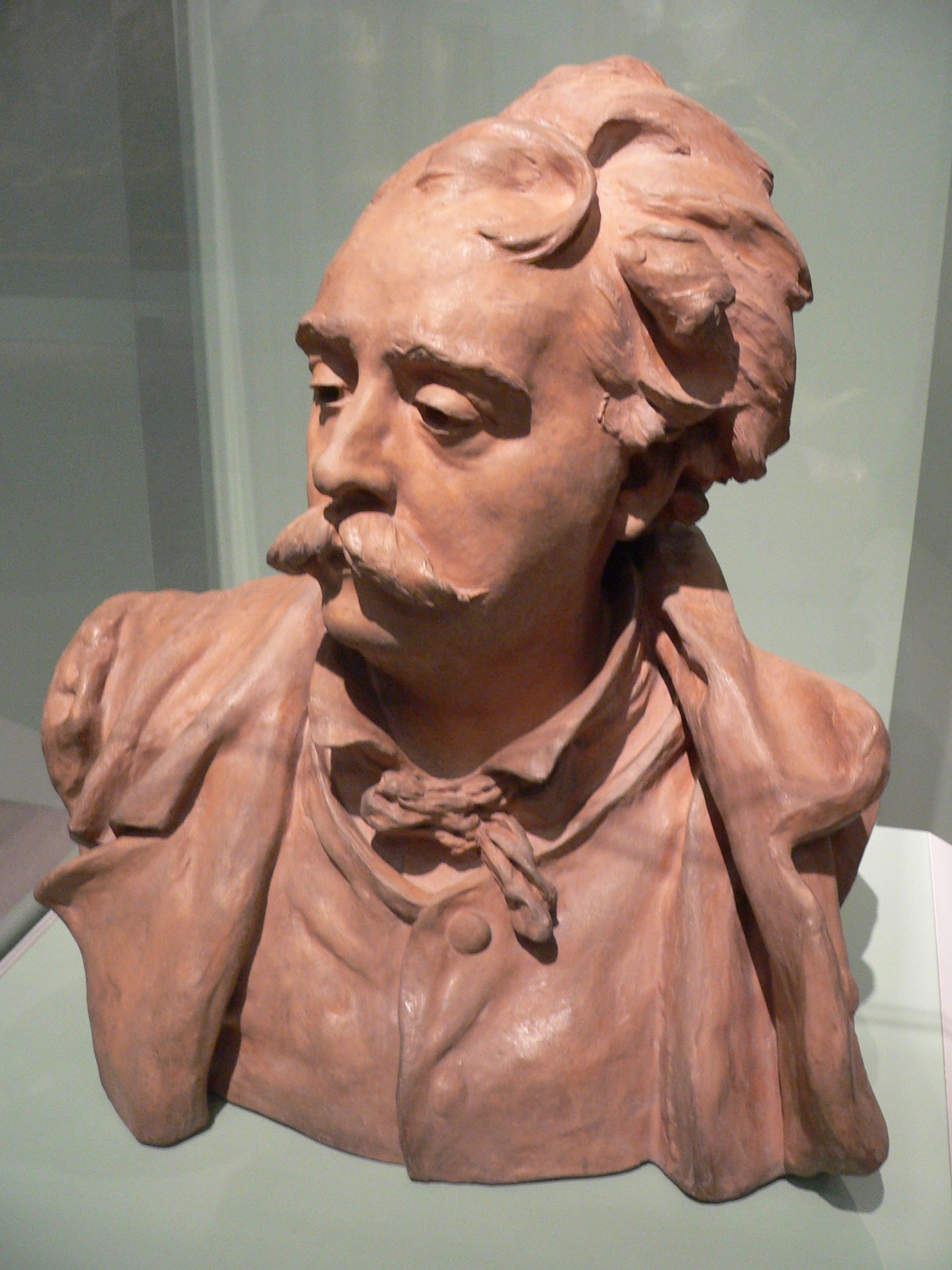 Auguste Rodin (French, 1840-1917): Bust of Albert-Ernest Carrier-Belleuse, 1882, terracotta, Iris & B. Gerald Cantor Center for Visual Arts, Stanford University Campus, Palo Alto, United States see also Image:Rodin Carrie-Belleuse p1070142.jpg